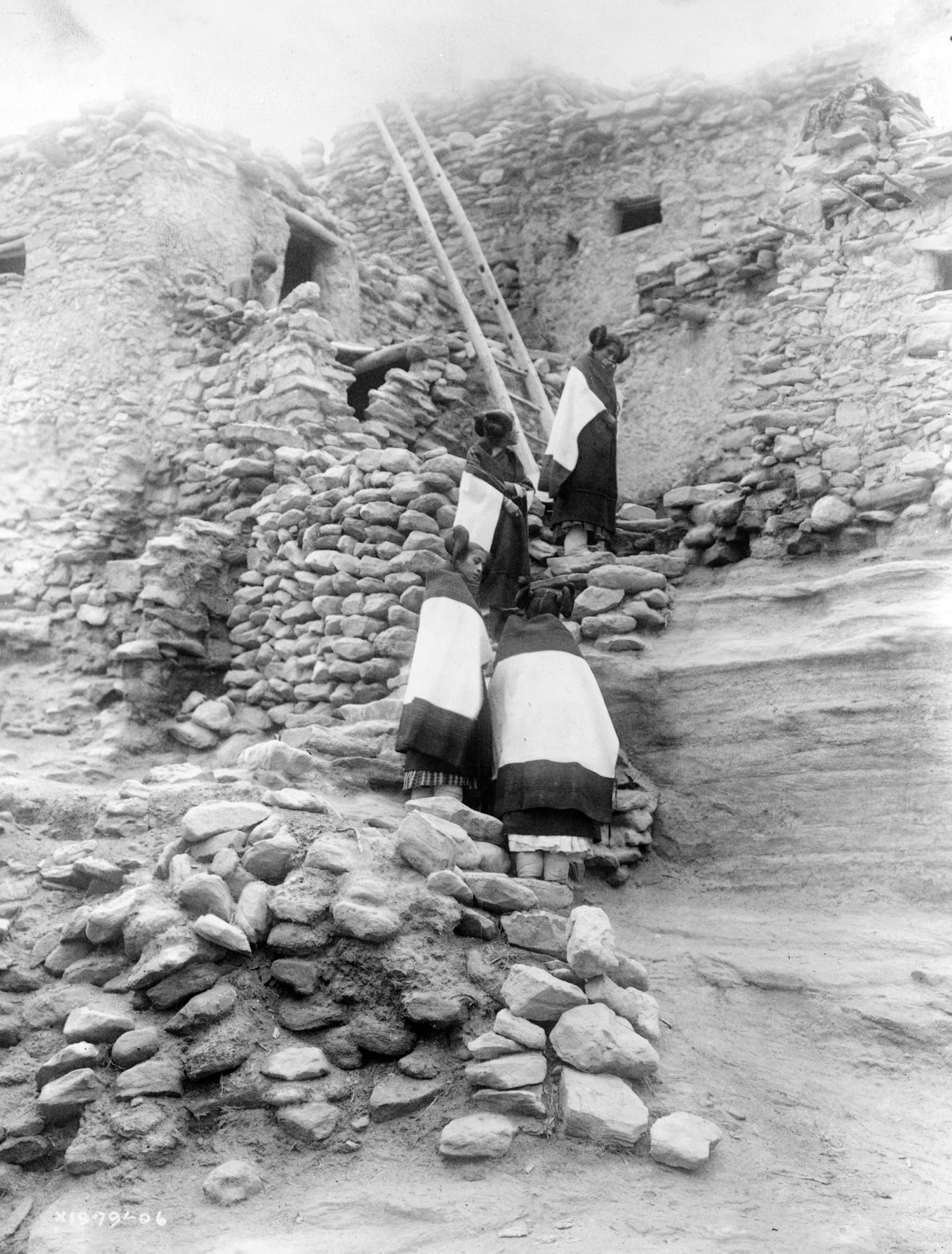 Four Hopi women in front of pueblo buildings. TITLE: Cliff perched homes--Hopi CALL NUMBER: LOT 12315 [P&P] Check for an online group record (may link to related items) REPRODUCTION NUMBER: LC-USZ62-112228 (b&w film copy neg.) SUMMARY: Four Hopi women in front of pueblo buildings. MEDIUM: 1 photographic print. CREATED/PUBLISHED: c1906. CREATOR: Curtis, Edward S., 1868-1952, photographer. NOTES: H87190 U.S. Copyright Office. Edward S. Curtis Collection. Curtis no. 1979-06. SUBJECTS: Indians of North America--Structures--Southwest, New--1900-1910. Hopi Indians--Structures--1900-1910. Pueblos--Southwest, New--1900-1910. FORMAT: Photographic prints 1900-1910. DIGITAL ID: (b&w film copy neg.) cph 3c12228 CARD #: 94514398